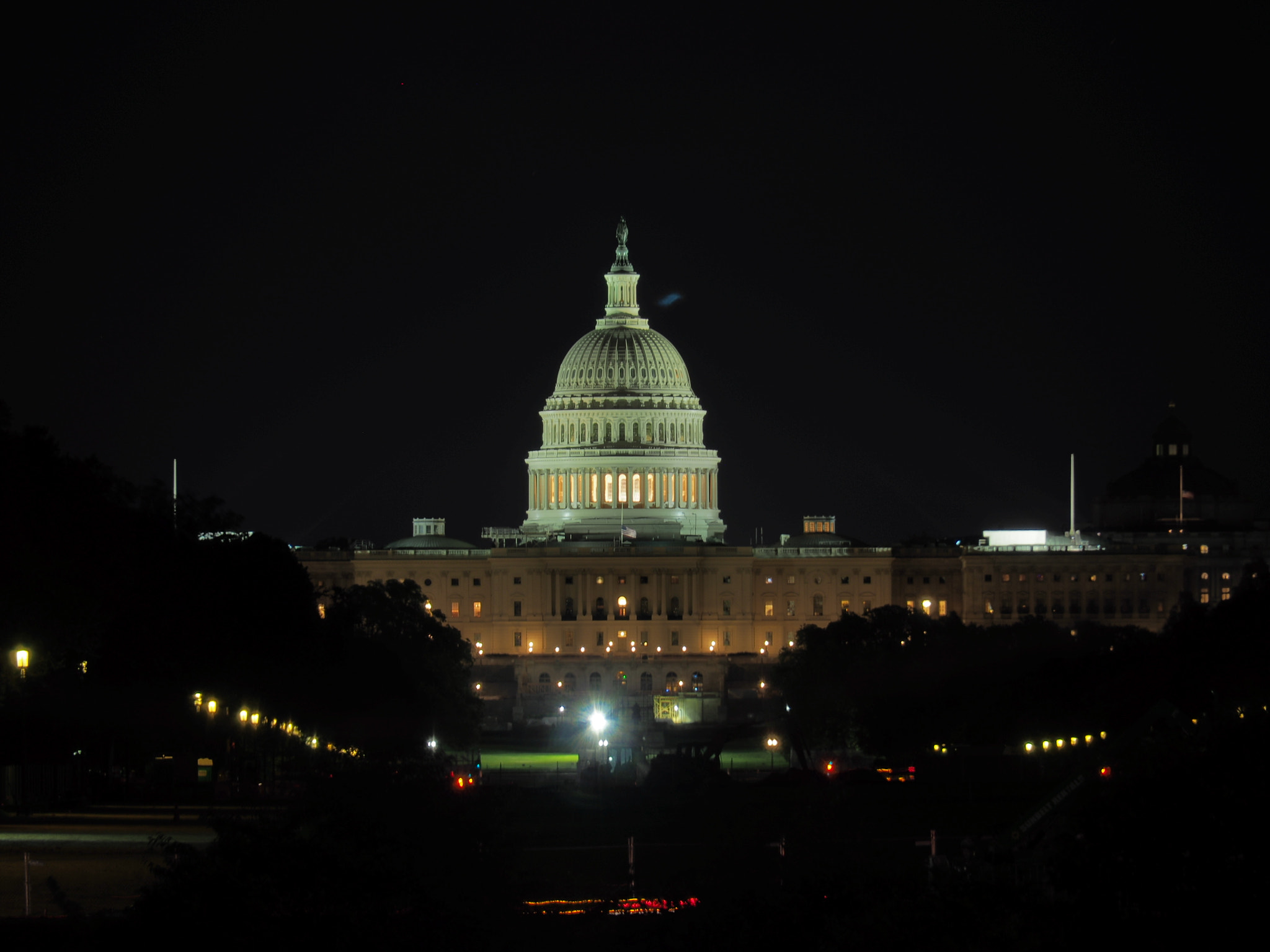 500px provided description: 150mm on my 4:3 from the benches of the Washington Monument. One can clearly see that i'm still learning ;) [#Night ,#DC ,#Capitol]